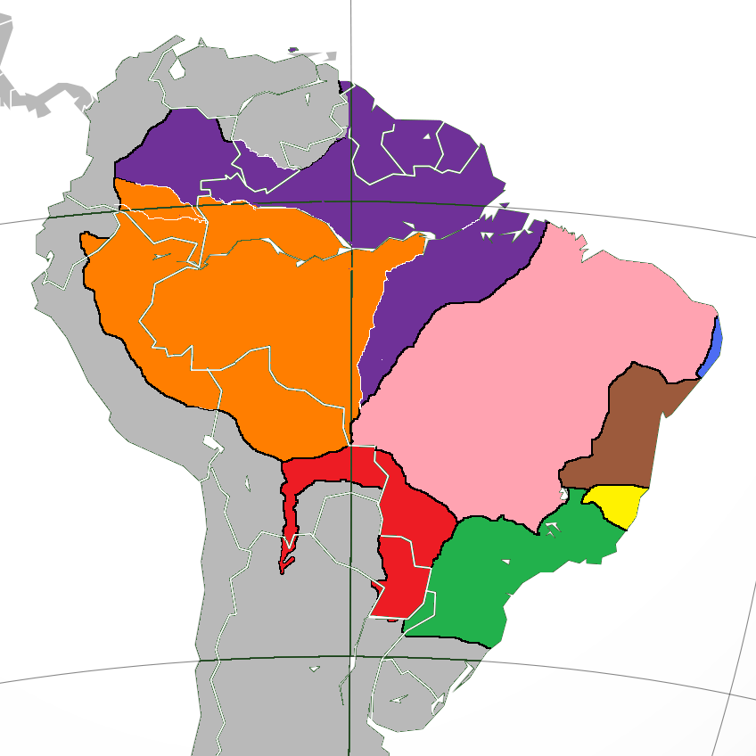 Genus Sapajus: distribution of species.